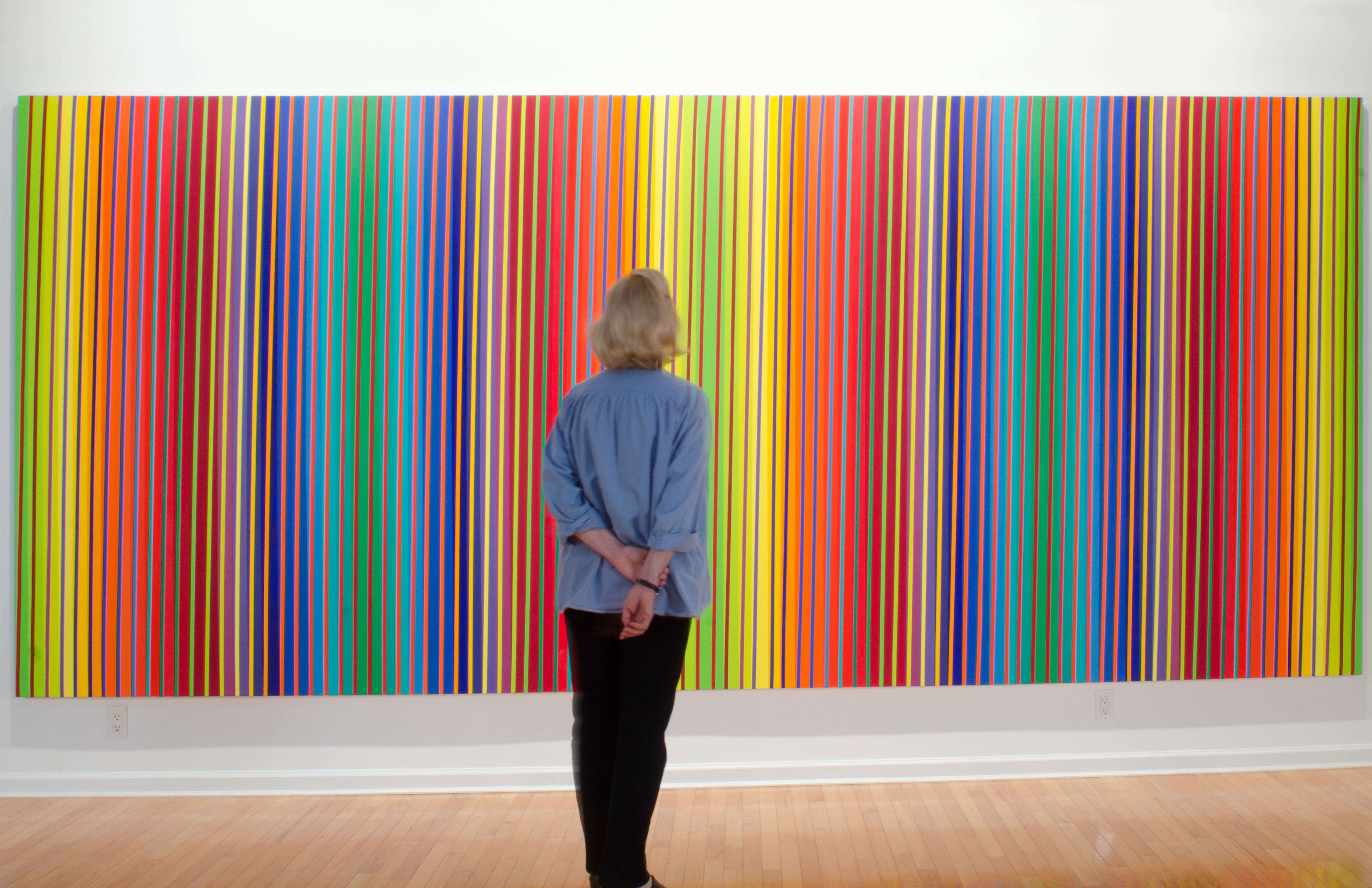 Title=Double, Year=1999-2000, Material=Acrylic on Canvas